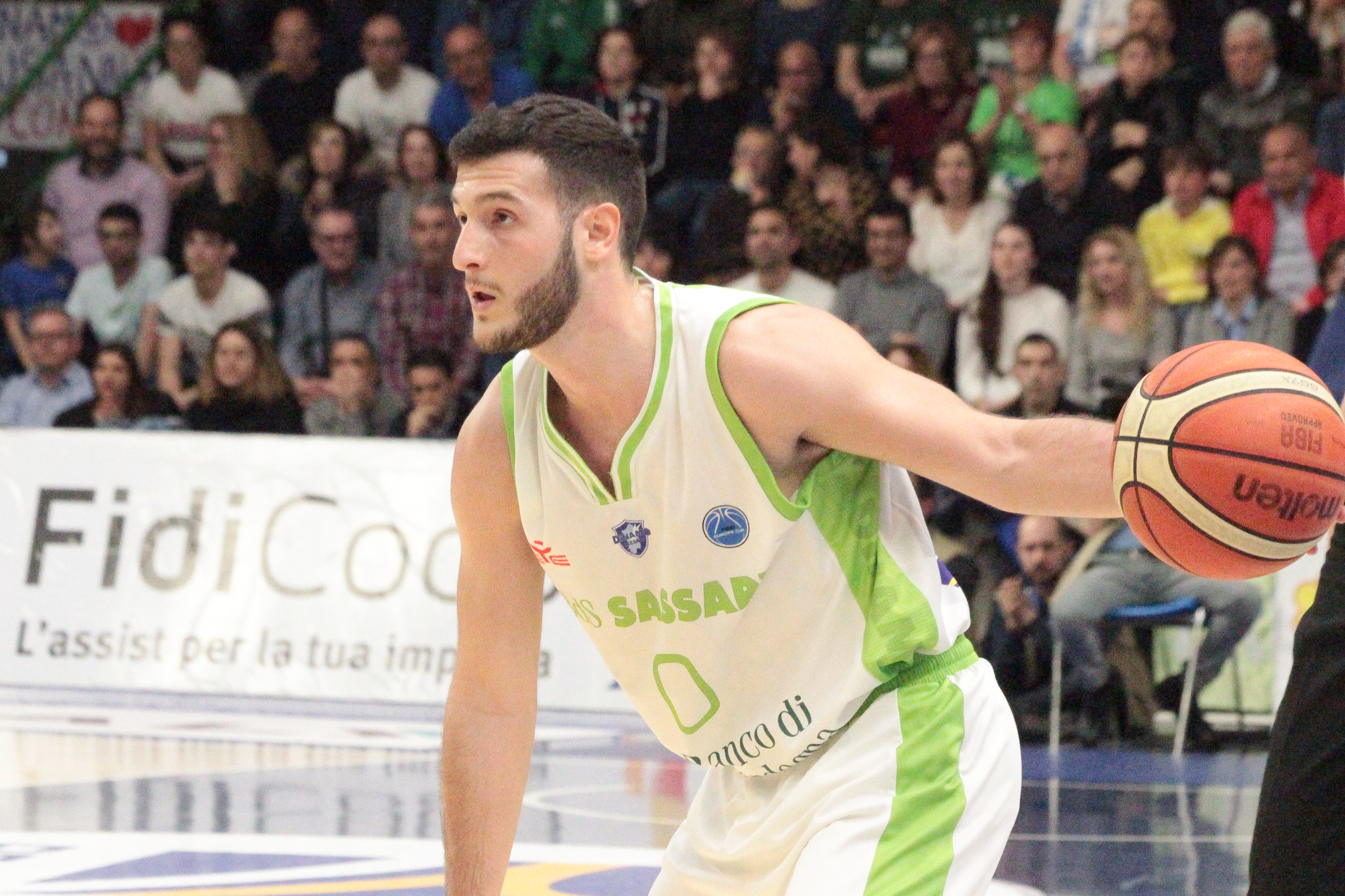 Basketball player Marco Spissu in the finals of the FIBA Europe Cup 2018-2019